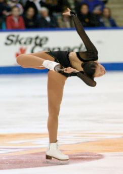 Shizuka Arakawa performs a donut spin at the 2003 Skate Canada competition in Mississauga, Ontario, Canada. Photo by Vesperholly